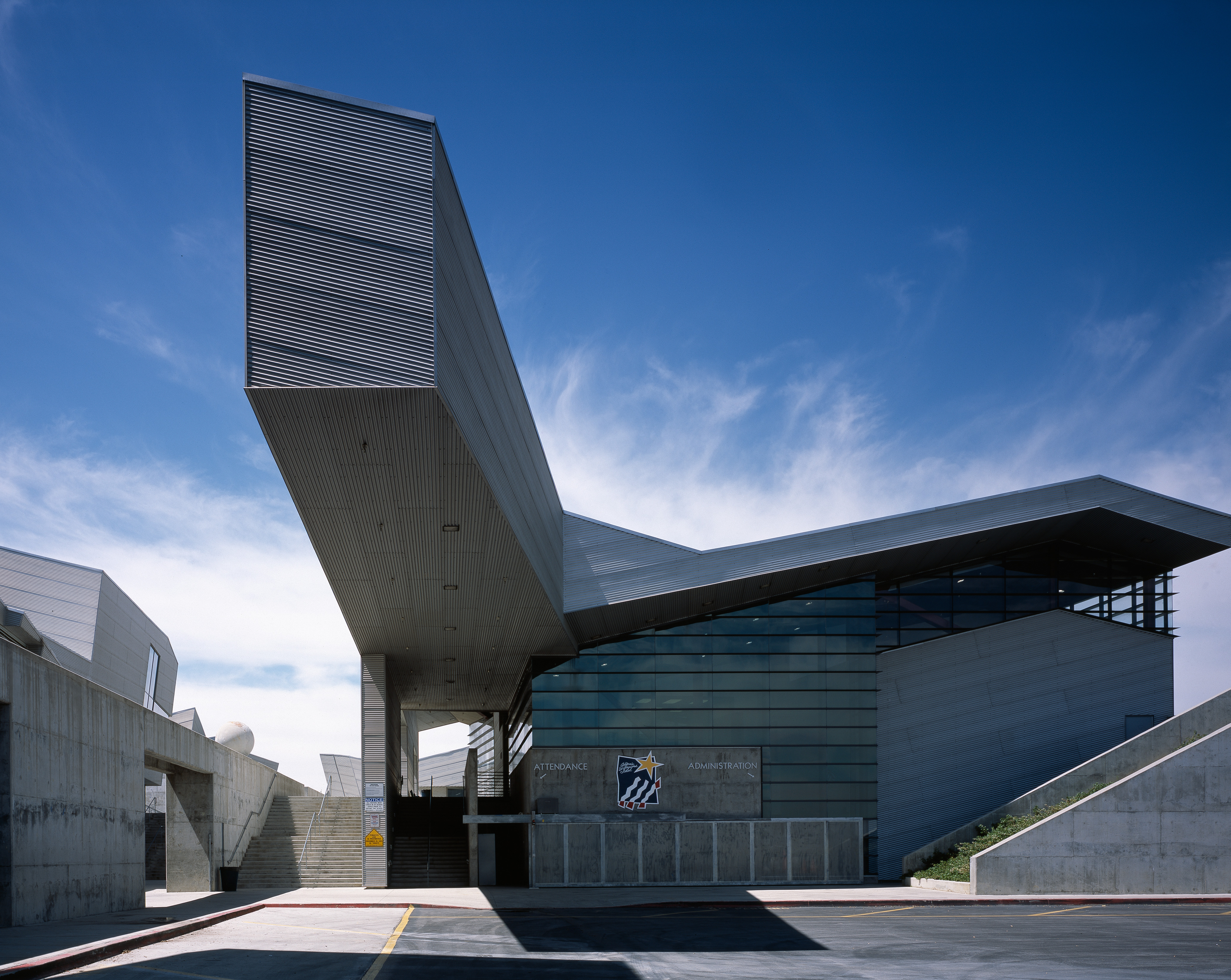 Buildings on the campus of Diamond Ranch High School, Pomona, California, USA Morphosis Architects describe "fragmented forms" of their Diamond Ranch High School (2000) near Pomona, California, "set tightly on either side of a long central 'canyon' or sidewalk that cuts through the face of the hillside like a geologic fault line."